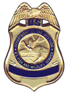 Badge of the United States Fish and Wildlife Service Office of Law Enforcement